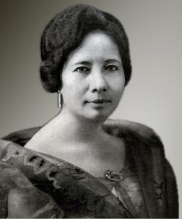 This is a photograph of Aurora Aragon-Quezon.